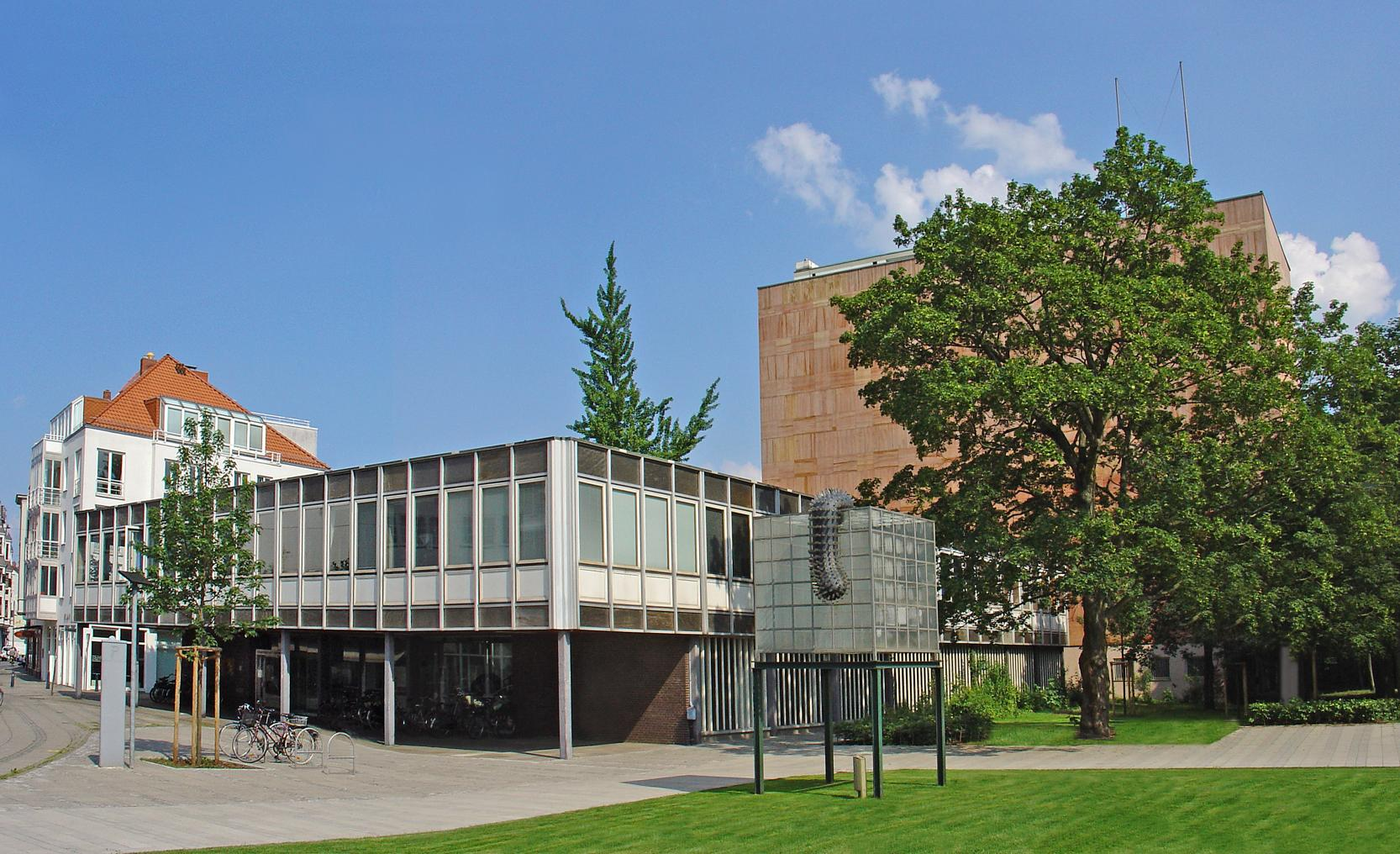 The Staatsarchiv Bremen (“State archive“), in Bremen, Germany, built in 1968. In the foreground the administration building, in the background the magazine building.